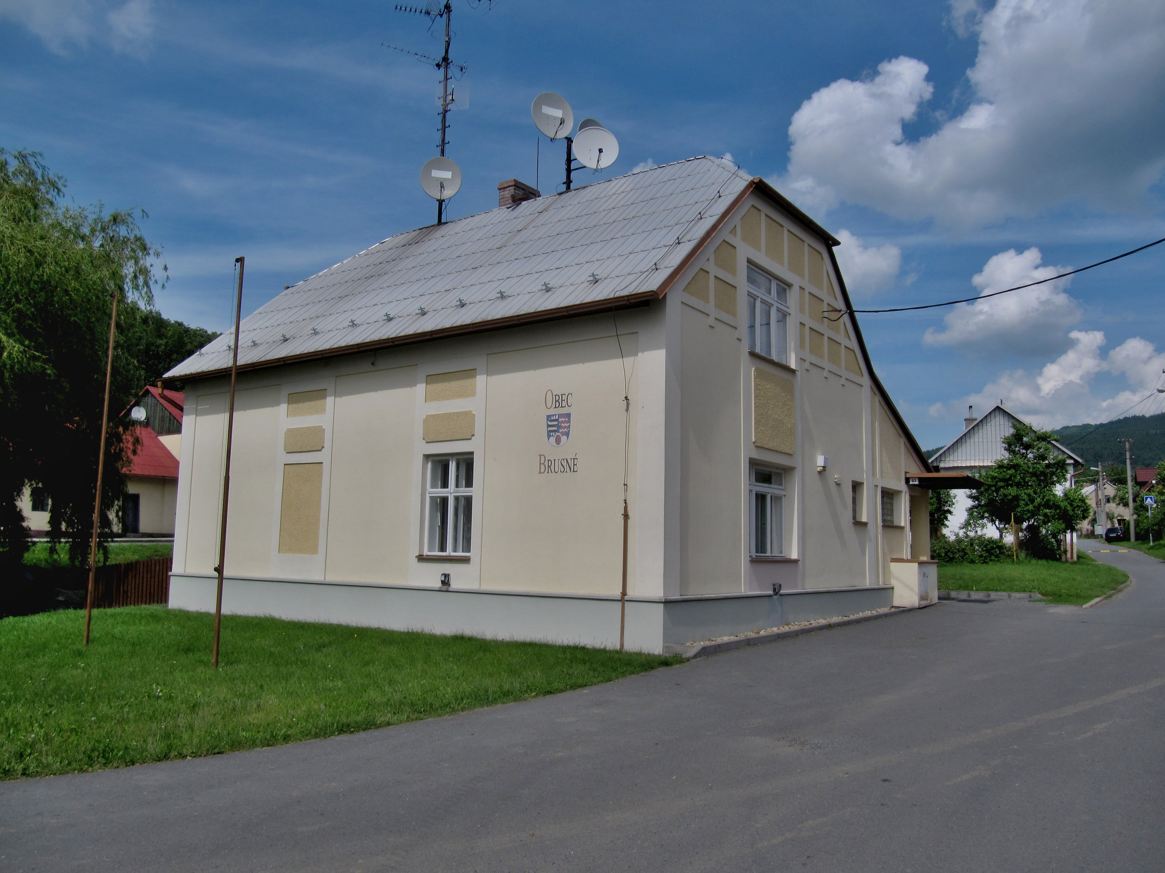 Brusné, Kroměříž District, Czech Republic.